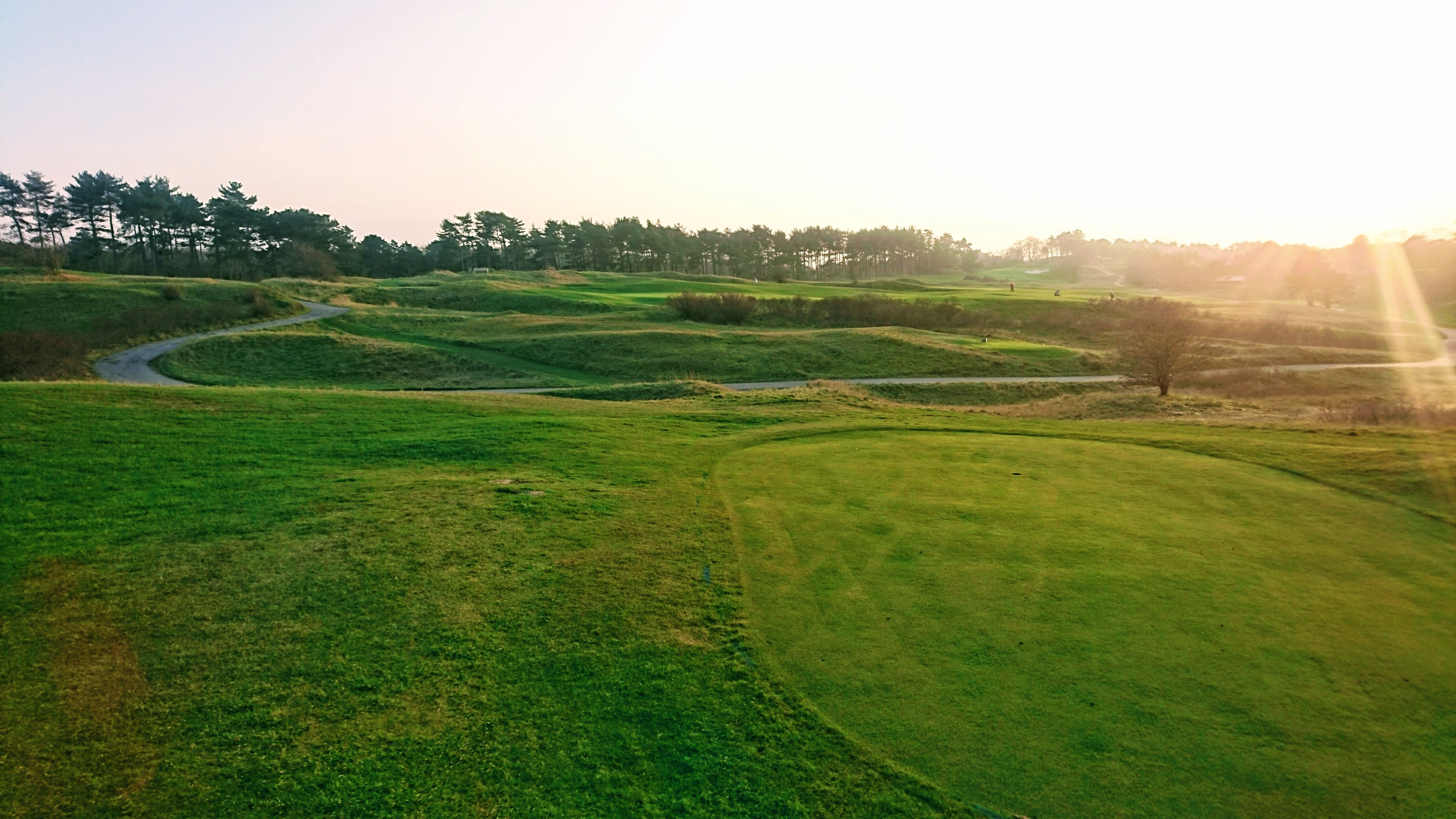 Royal Hague Golf and Country Club